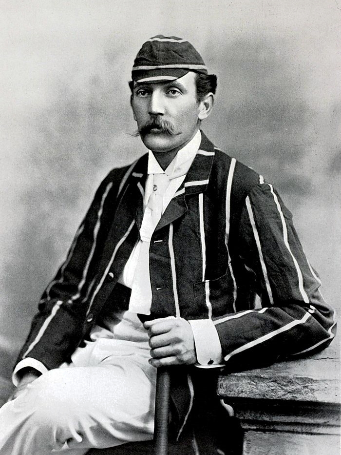 Sport. Cricket. Circa 1895. William Henry Scotton, Nottinghamshire (1875-1890) and England (1881-1887).